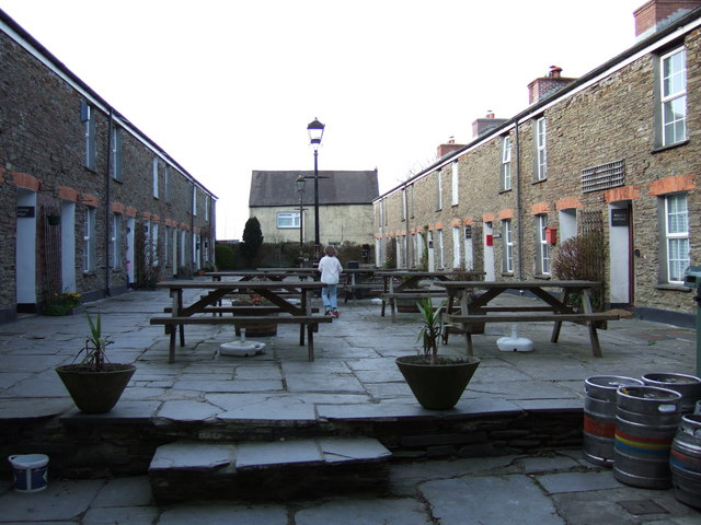 Converted Cottages, Edmonton These cottages (Built 1853, formerly for quarry workers from the quarry which used to be worked near the railway, towards Padstow) have been converted, in 1988, for use as holiday lets. They are in two parallel rows with a pub (The Quarryman) as a third side of the rectangle, access being gained via an archway. (I had my back to the pub to take the shot).